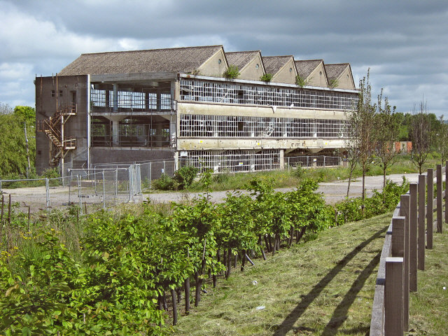 The old Moorlands factory, Glastonbury Once famous for making the RAF's sheepskin jackets.